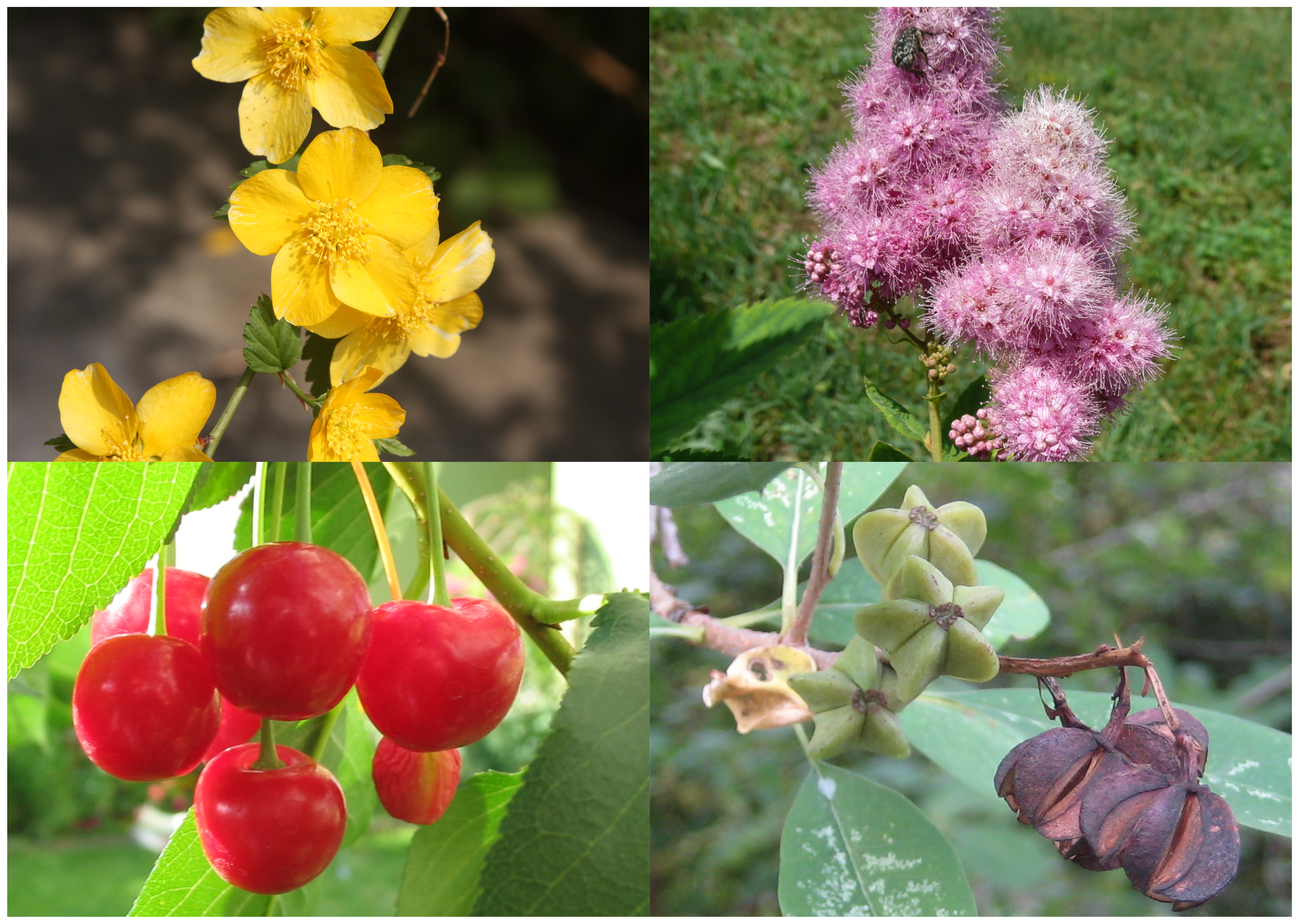 To illustrate the diversity of the subfamily as defined since August 2011.